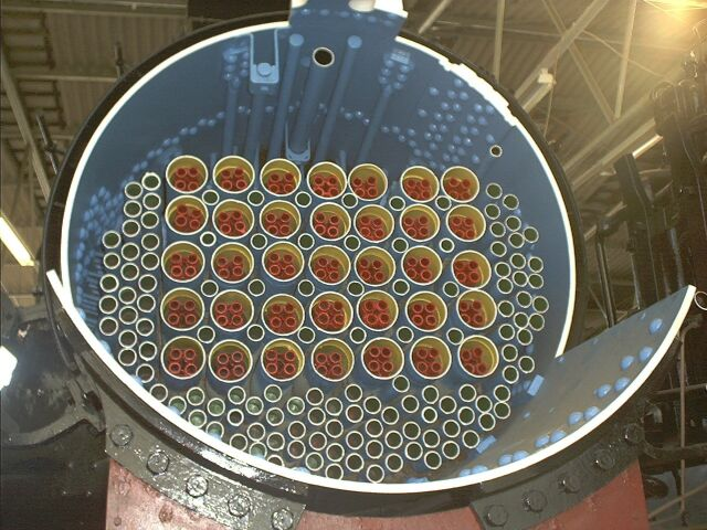 Steam Locomotive which has been cut away to show the internal structure of the boiler.